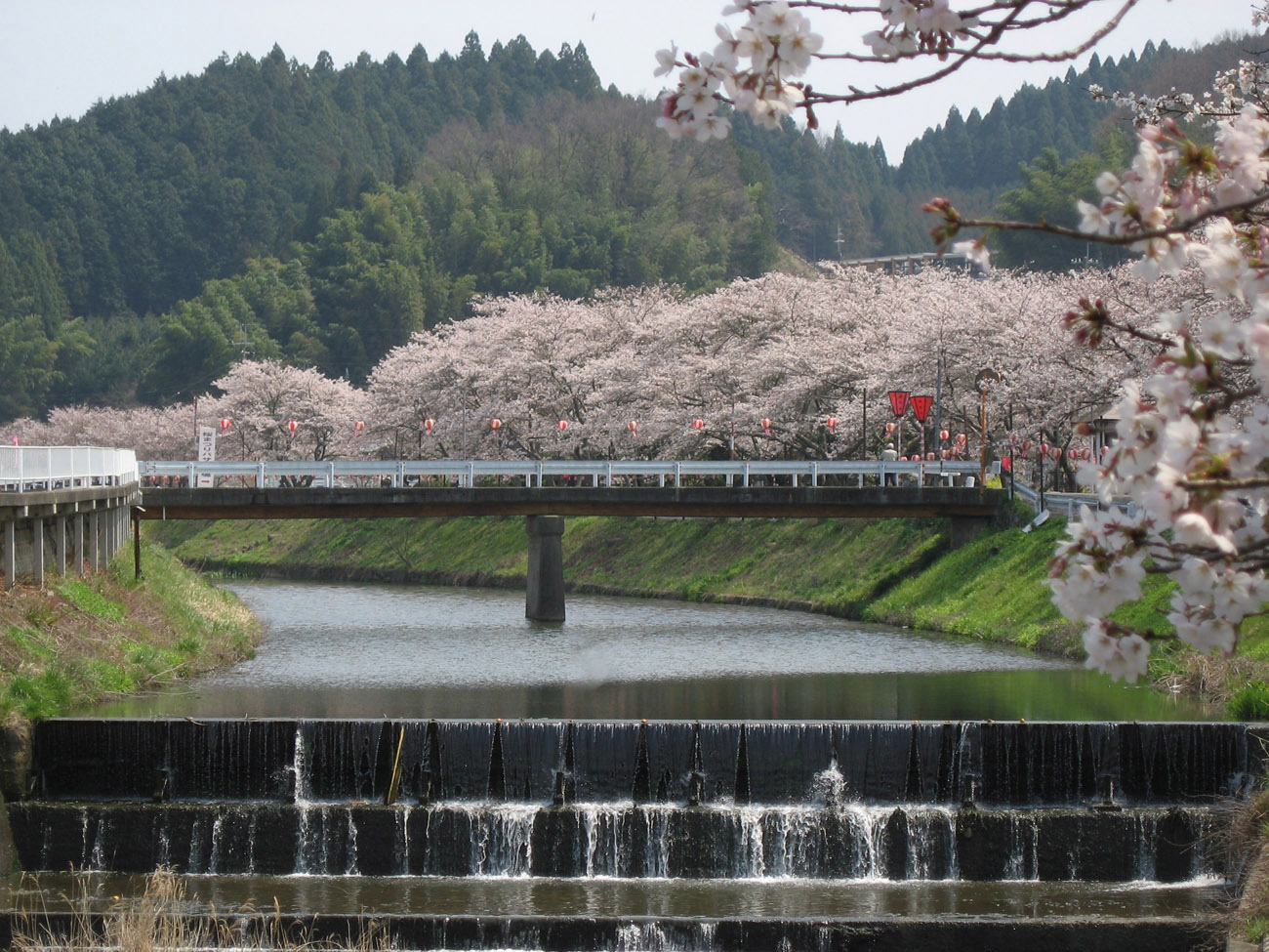 Mikumari-Zakura Cherry blossoms on dike of the Houno River Furuichiba Utano Uda-City Nara Pref., Japan. 水分桜（みくまりざくら） 芳野川堤防上の桜並木 奈良県宇陀市菟田野区古市場